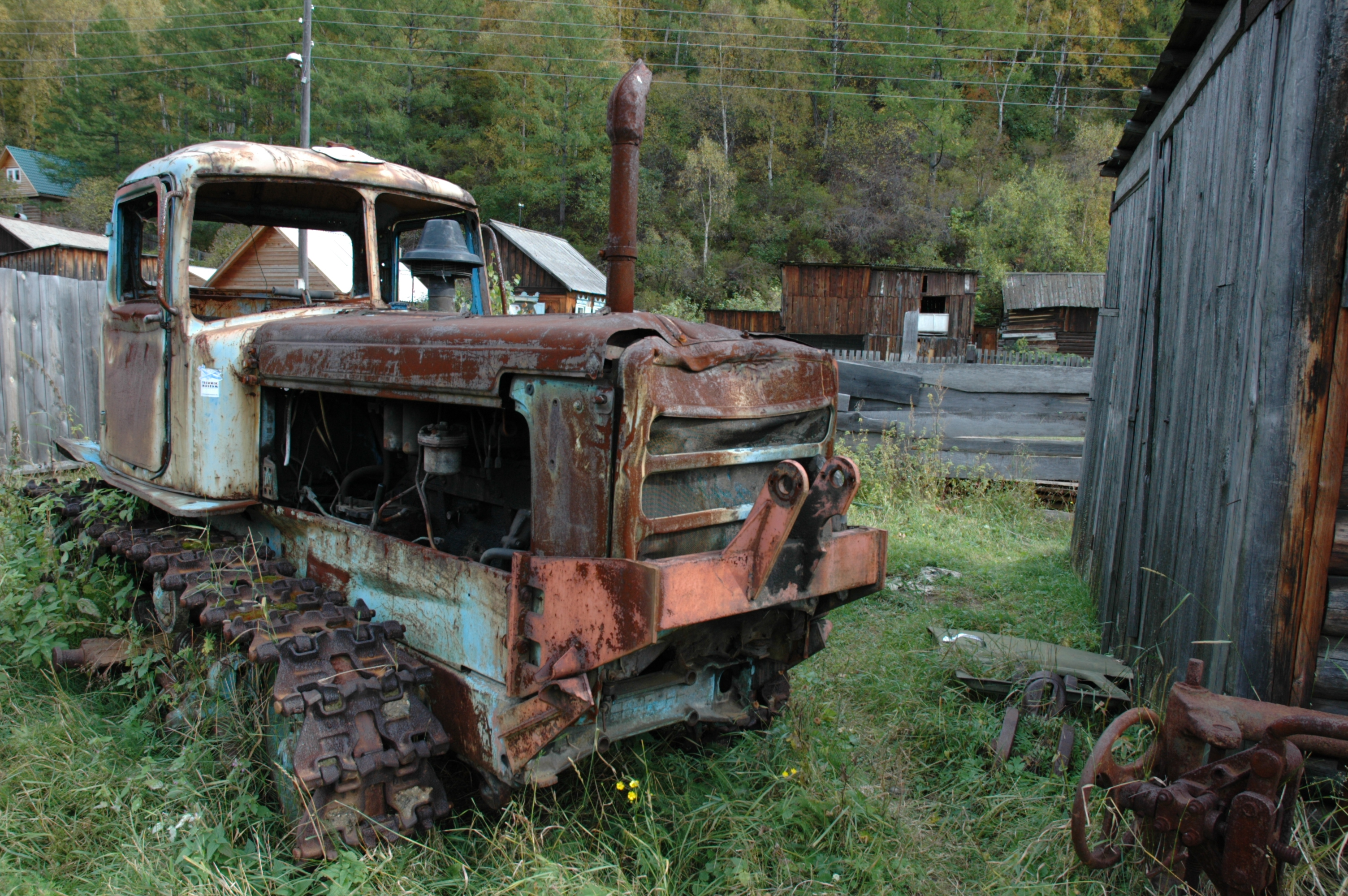 A rusty old tracked tractor in Listvyanka, Russia.